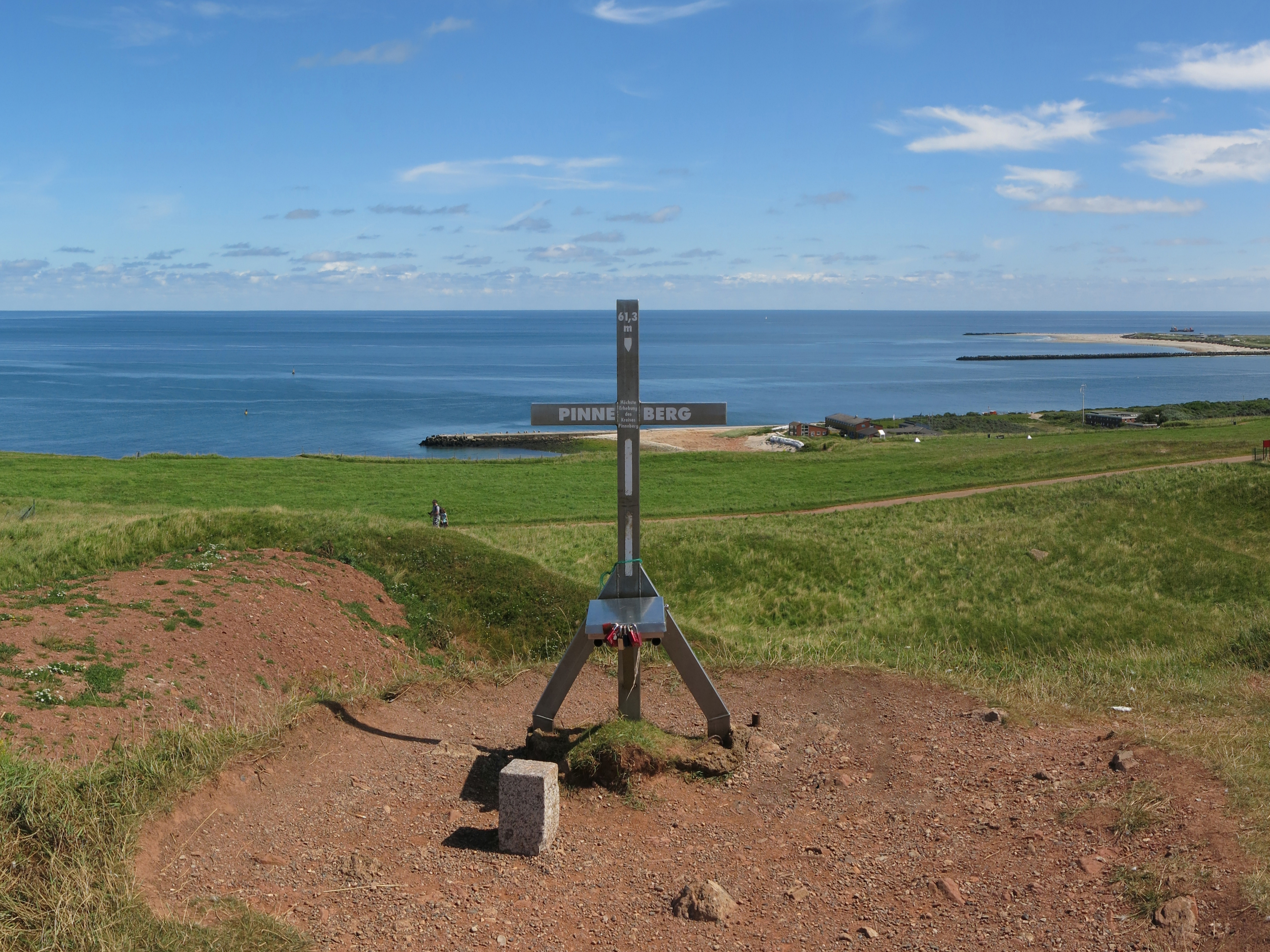 Cross on the summit on the Pinneberg, the highest hill on Heligoland